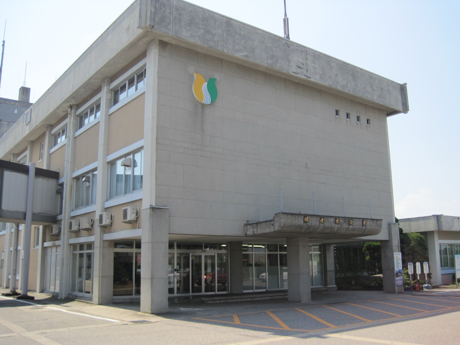 Tonami City Hall (Tonami city, Toyama prefecutre)